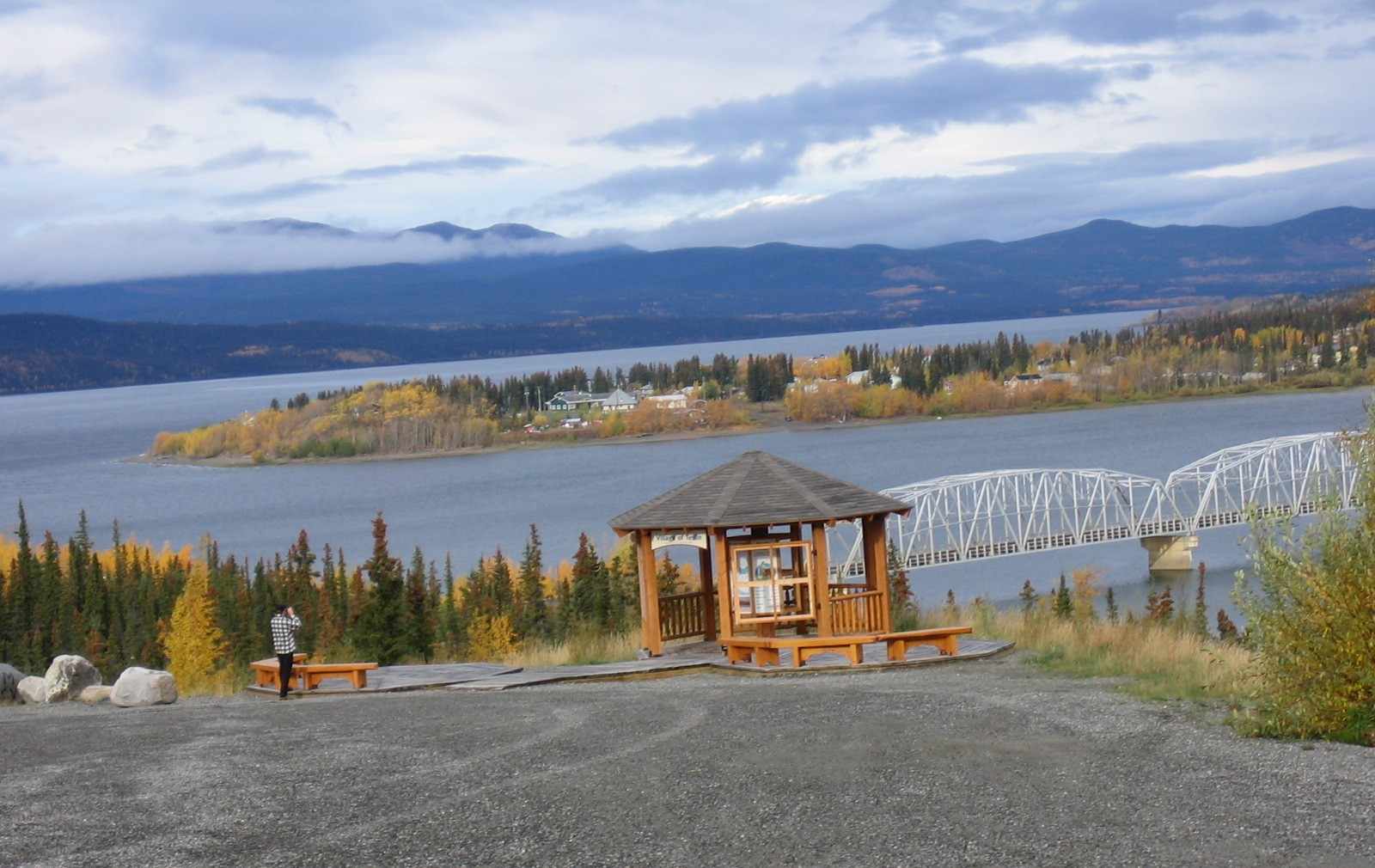 A view of Teslin, Yukon, Canada, from the rest stop across the water to the southeast. The Yukon Highway 1 (Alaska Highway) bridge is visible in the foreground.